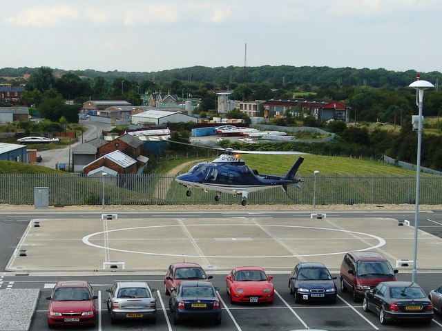 Chocks Away Helicopter taking off from Sports World's head office helipad.